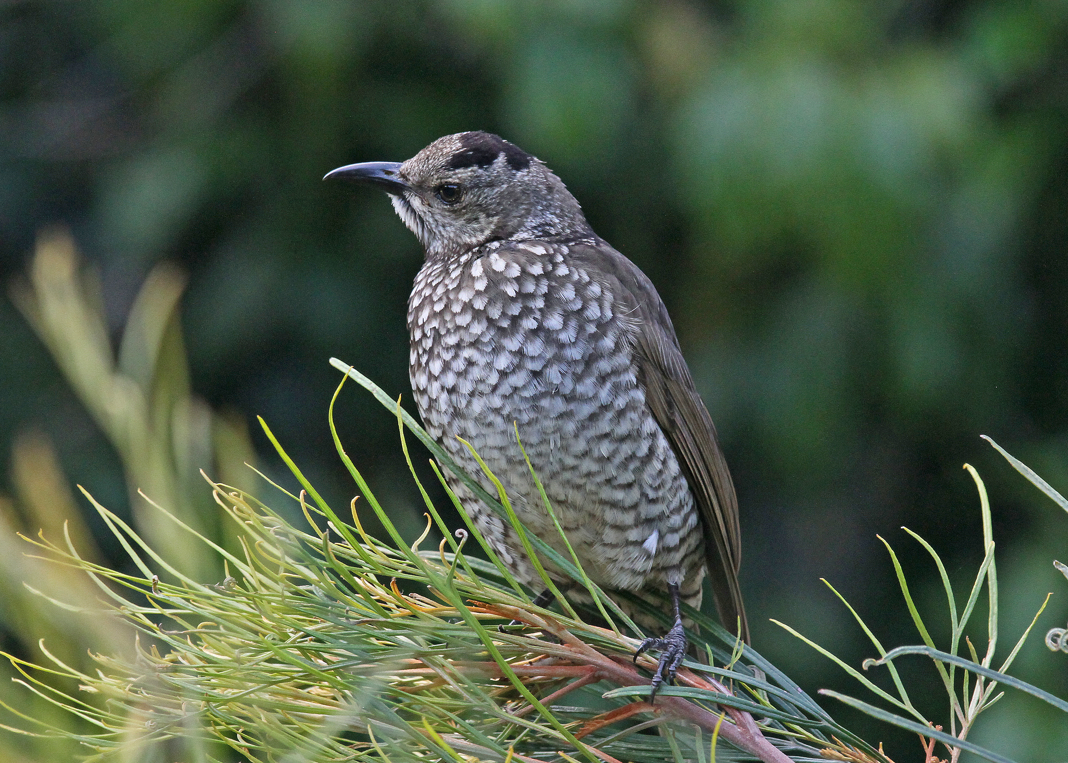 photo of female Regent Bowerbird